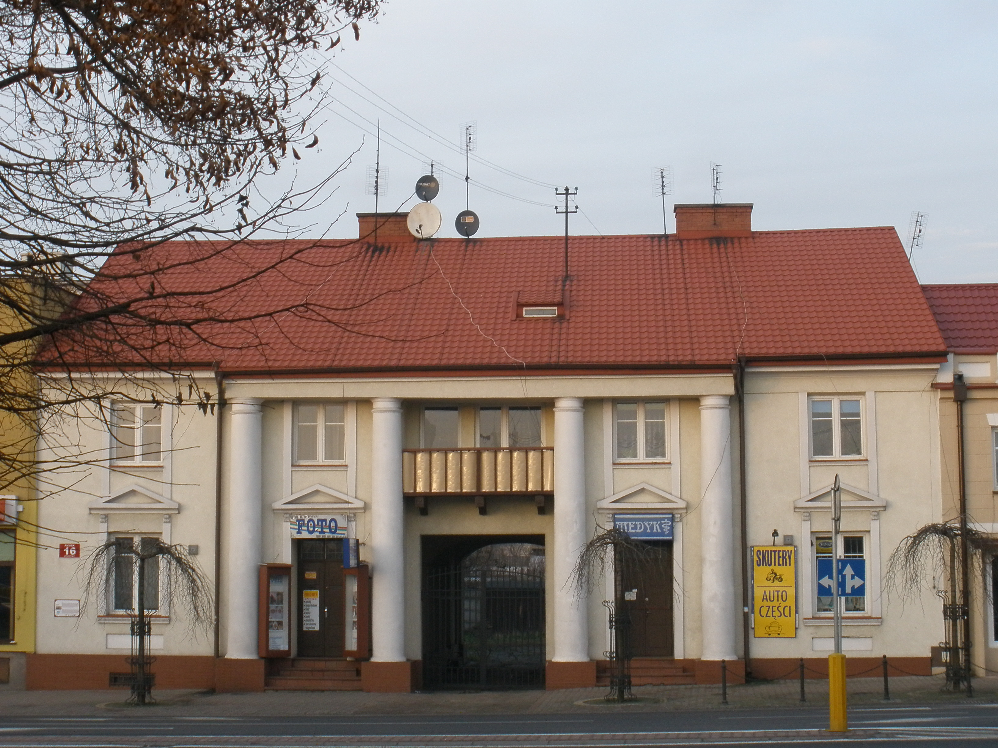 The Inn in Gostynin